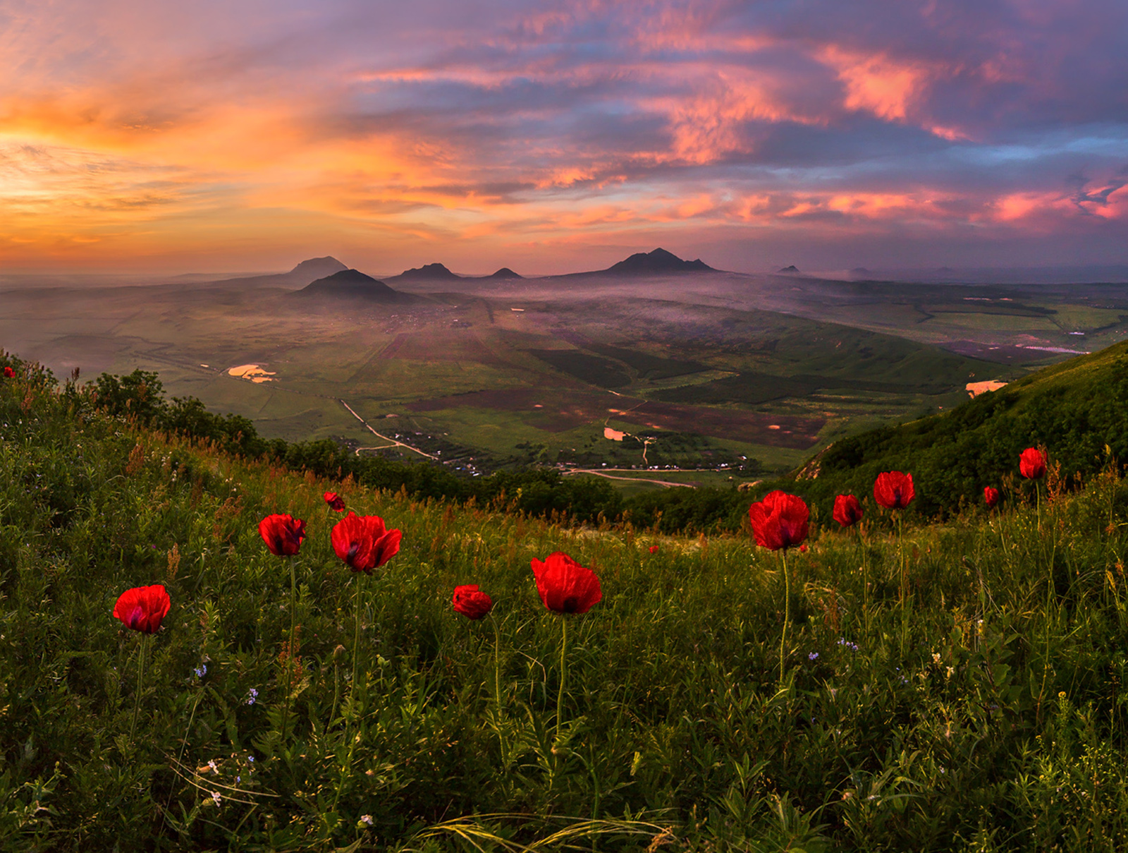 Мак прицве́тниковый (Papaver bracteatum) на фоне гор Кавминвод. Ставропольский край. Эндемик Кавминвод, реликтовый прицветниковый мак, называемый также бештаугорским. Это большой, больше метра высотой, с крупным цветком, растение.